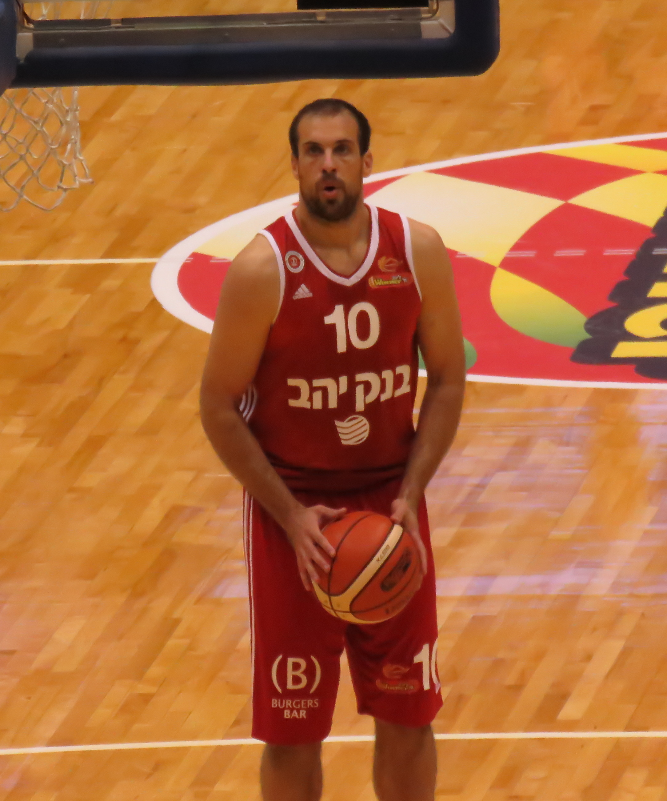 Maccabi Tel Aviv vs Hapoel Jerusalem, 25 October, 2015